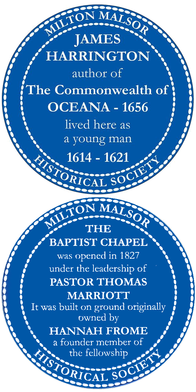 Blue plaques in Milton Malsor UK. This image represents an Open Plaques entry #28279. This image represents an Open Plaques entry #28280.